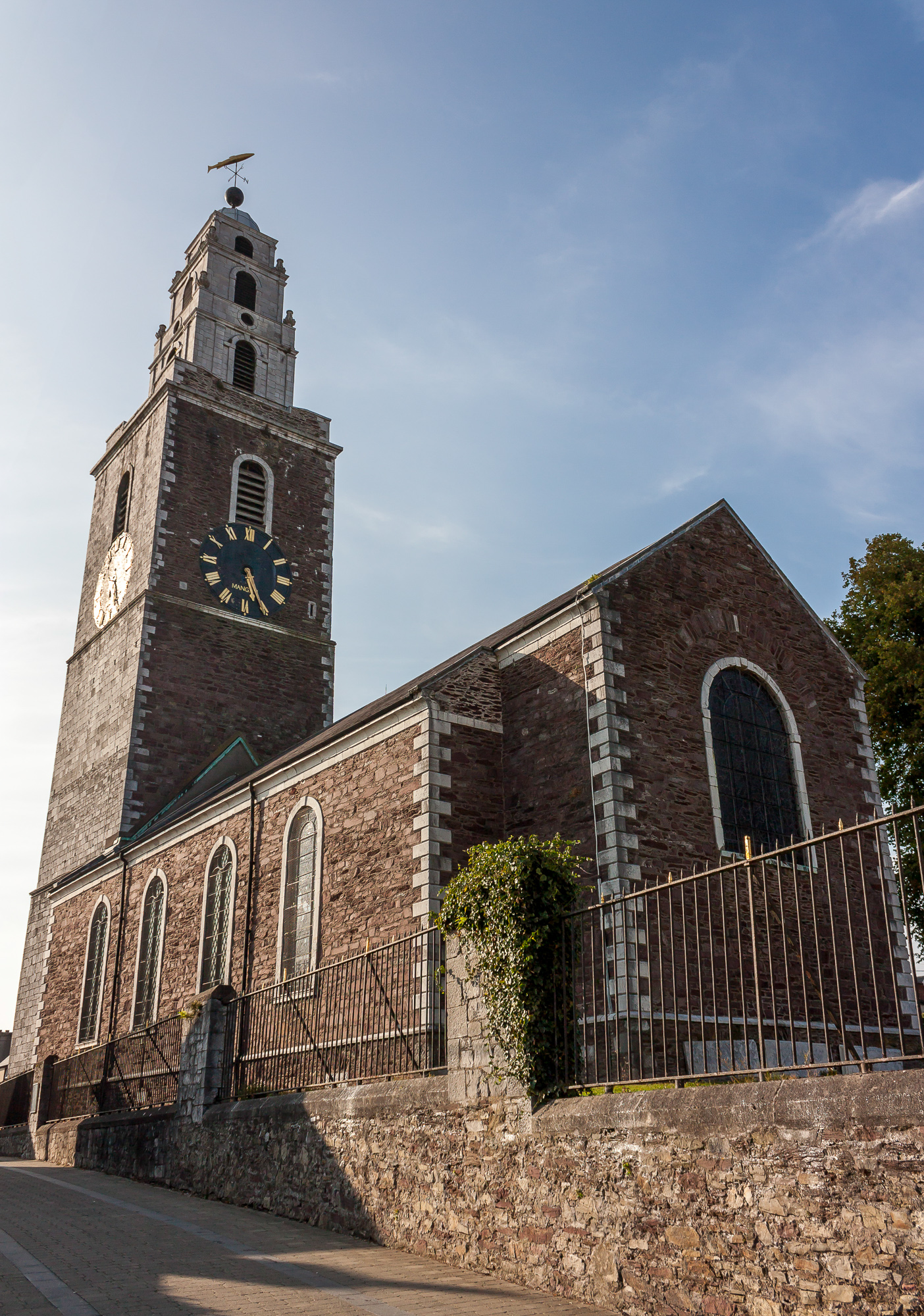 St Annes Church Shandon